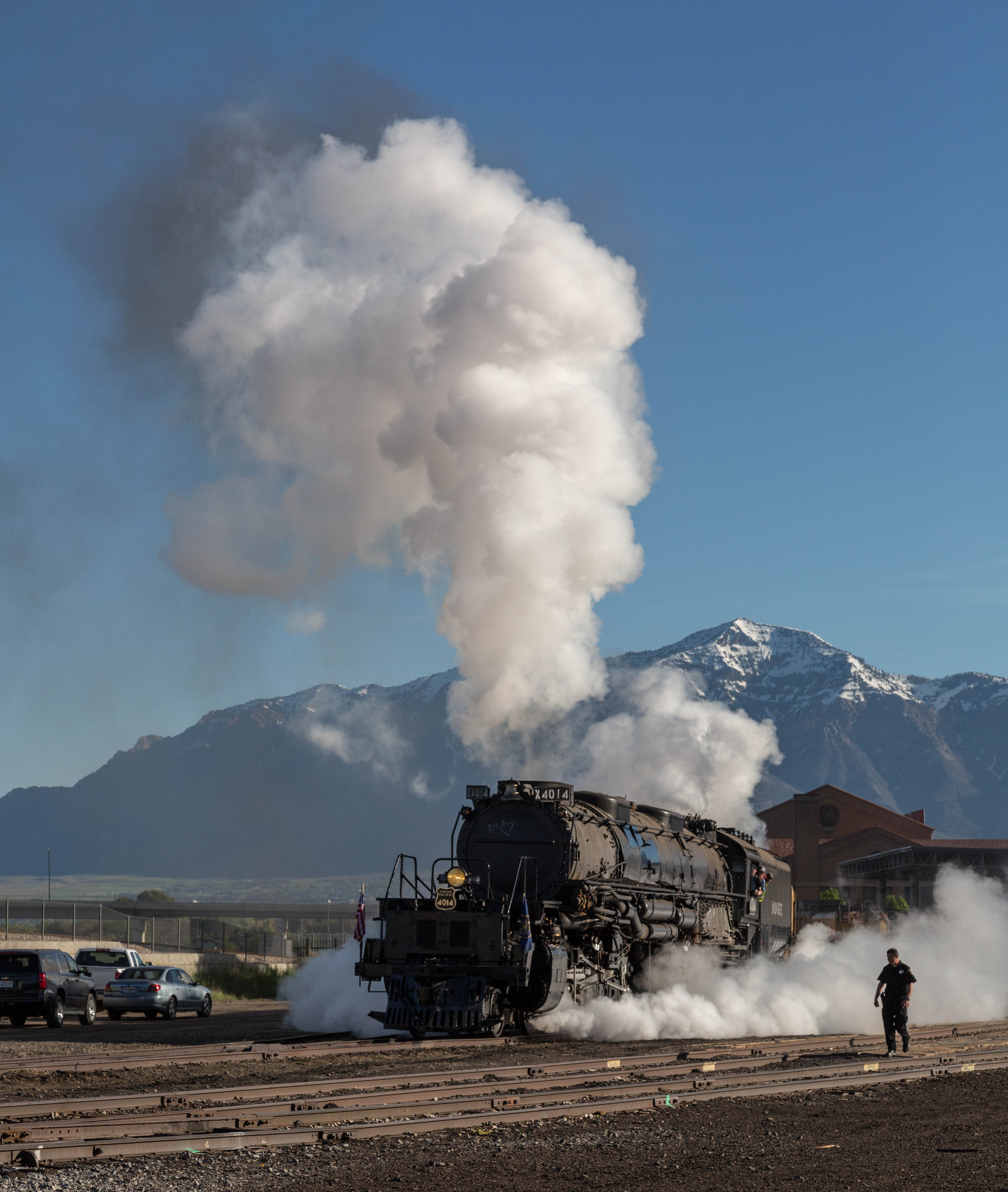 Union Pacific 4014 teamed with UP 844 take off from Ogden, Utah Union Station heading for Cheyenne, Wyoming after participating in the Golden Spike Sesquicentennial. Security guard is keeping us all at bay.